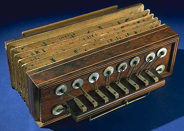 Civil war era flutina or maybe aeoline (not a concertina.) Source: National Park Service, United States Department of the Interior: Information presented on this website, unless otherwise indicated , is considered in the public domain. Category:Musical instrument images